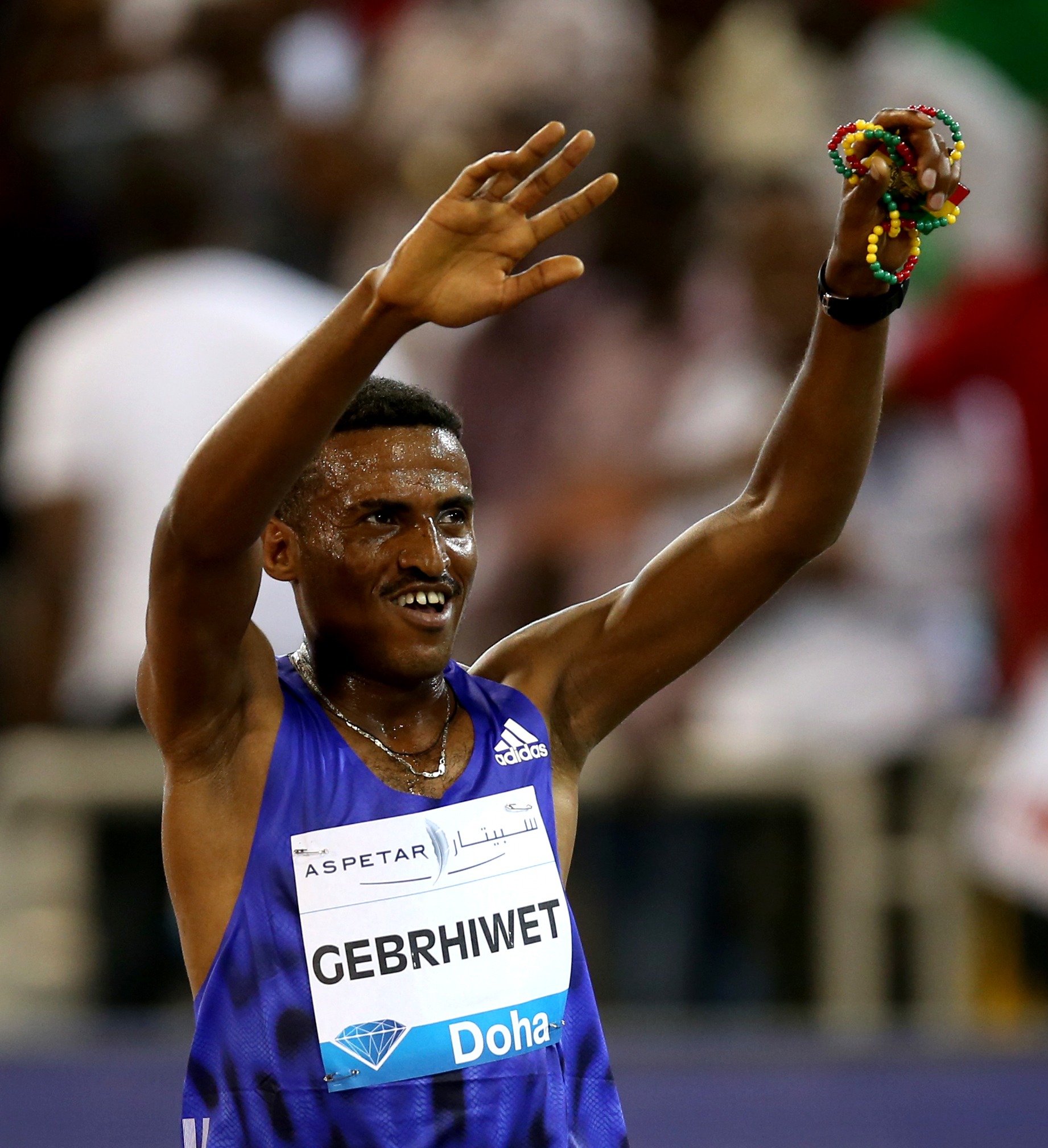 Ethiopia's Hagos Gebrhiwet celebrates after winning men's 3,000M gold at the Doha Diamond League. Pic by Mohan